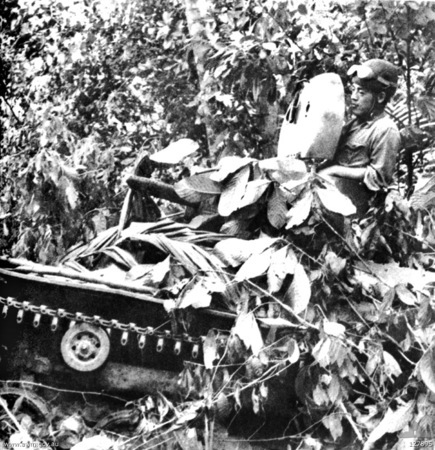 MALAYA, 1942-01-17. A JAPANESE TYPE 97 TANKETTE, CAMOUFLAGED BY LEAVES, IN THE GEMAS AREA DURING THE INVASION OF THE MALAYAN PENINSULA.